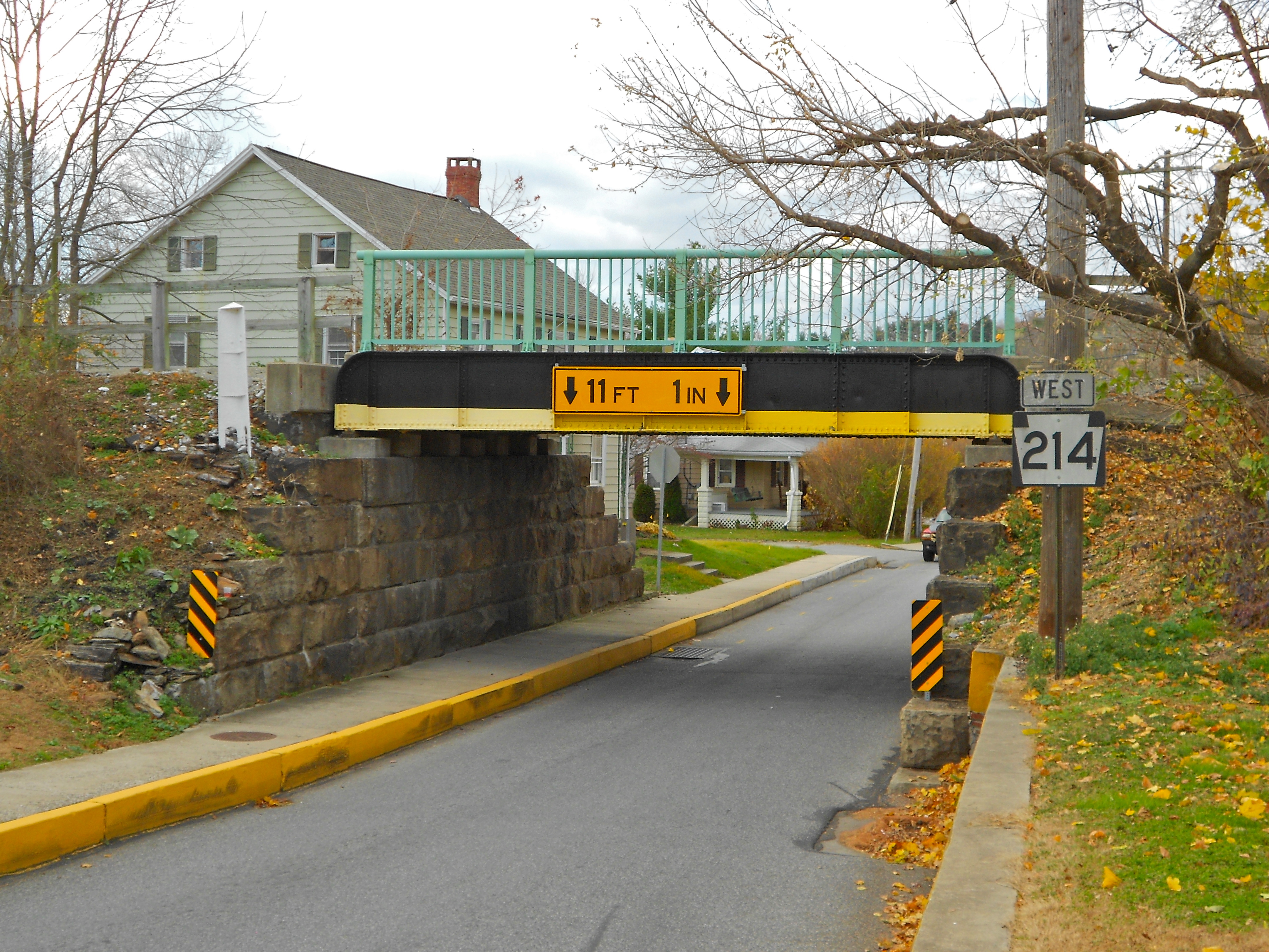 Bridge 5+92, Northern Central Railway on the NRHP since May 4, 1995. On the Northern Central railroad tracks over South Main Street, north of Pennsylvania Route 214, Seven Valleys, York County, Pennsylvania